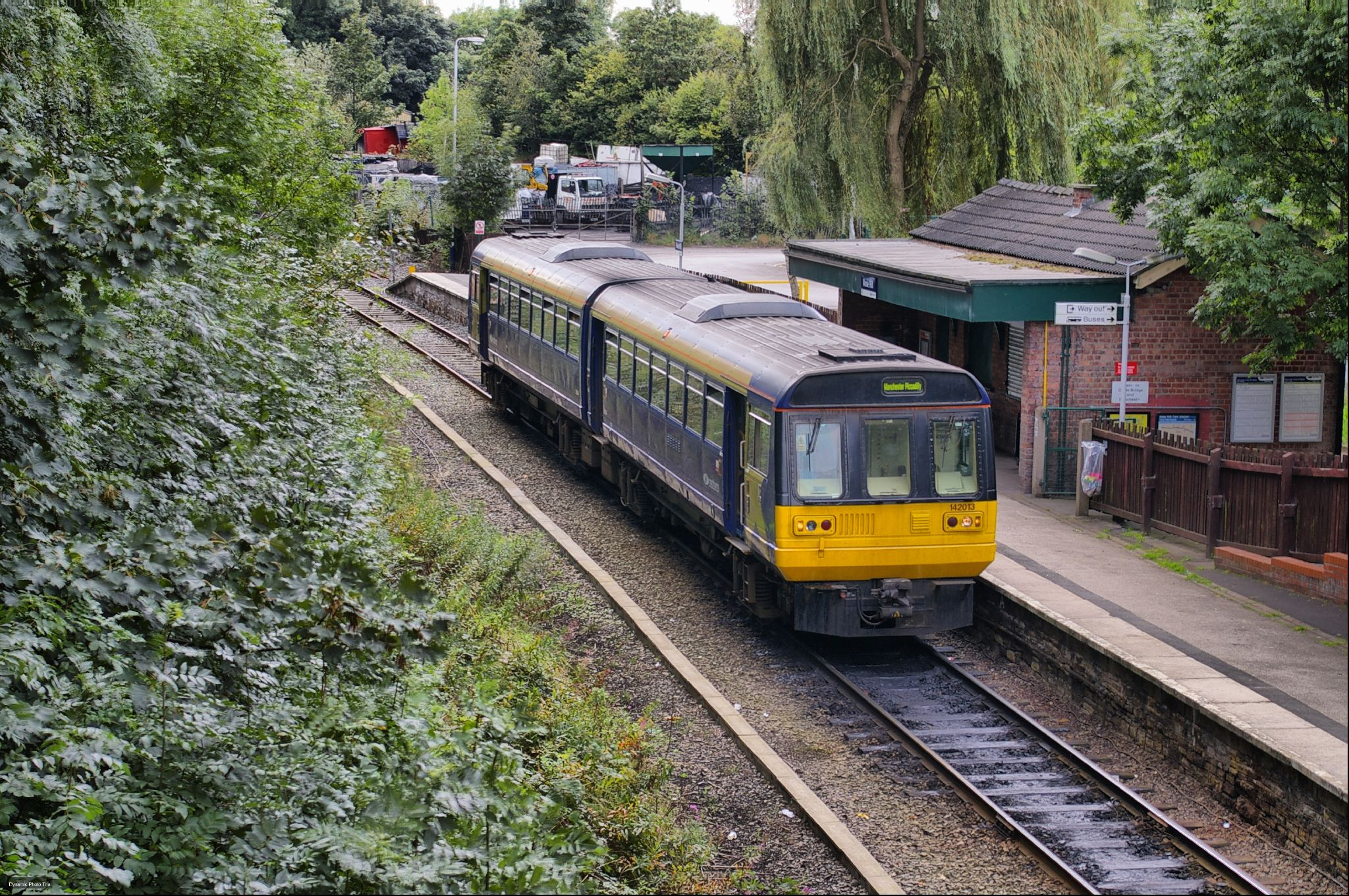 Waiting for the 13.30 depature to Manchester Piccadilly via Guide Bridge. HDR shot